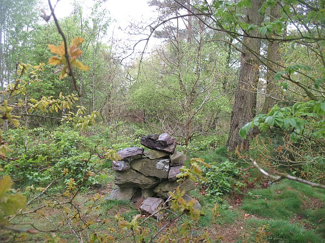 Mynydd y Cwm, the summit Cairn more or less at the wooded summit of Mynydd y Cwm.